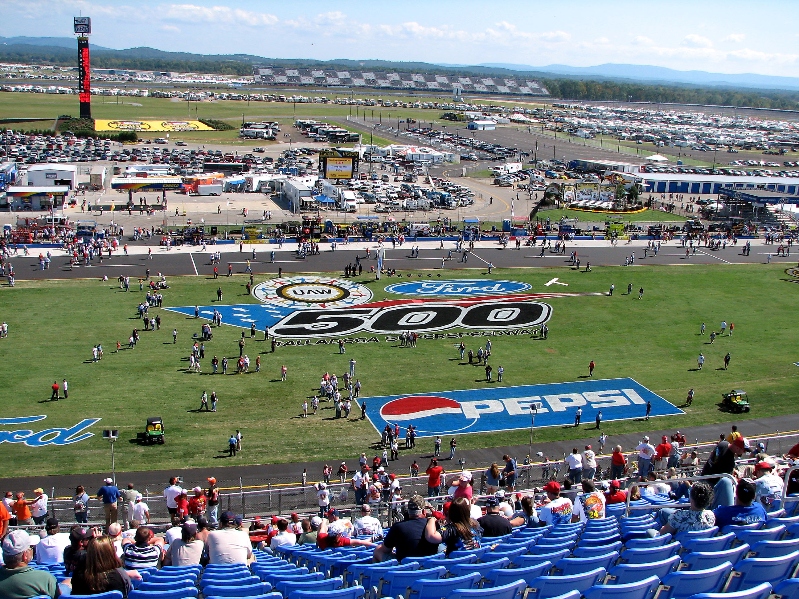 Talladega Superspeedway after the re-paving of the track.